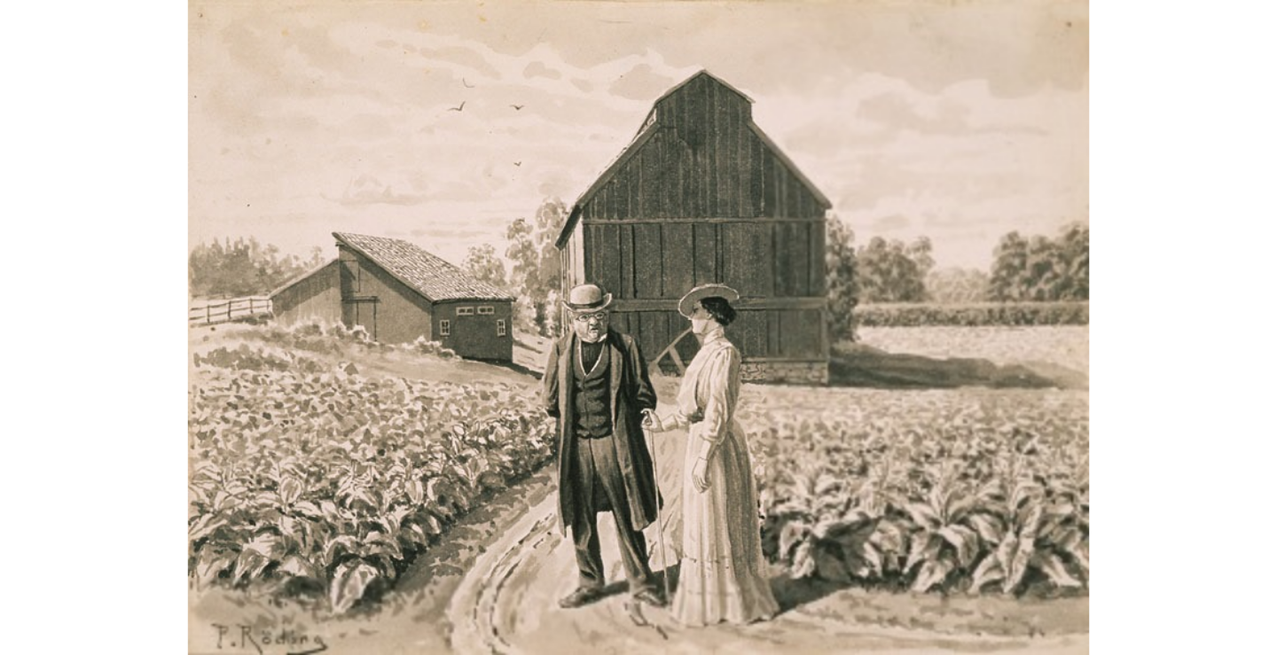 Gentleman and lady by tobacco plantation in Stockholm (wash drawing)